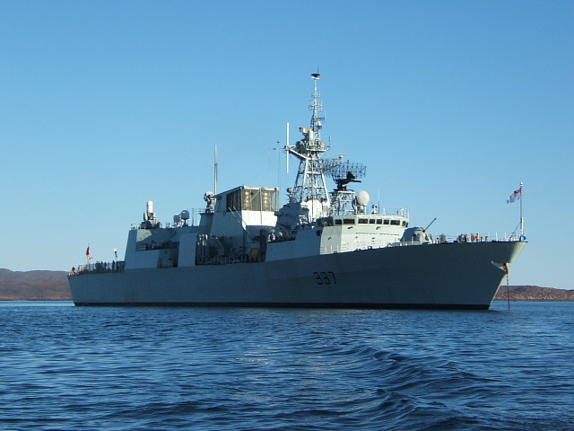 This photo was taken by Rick Kelly, of Iqaluit, on Sep 05 2007. Photo was taken off of Iqaluit, Nunavut over the Labour Day weekend when the ship visited. Photo is released into the public domain. Please give credit if you use this image.